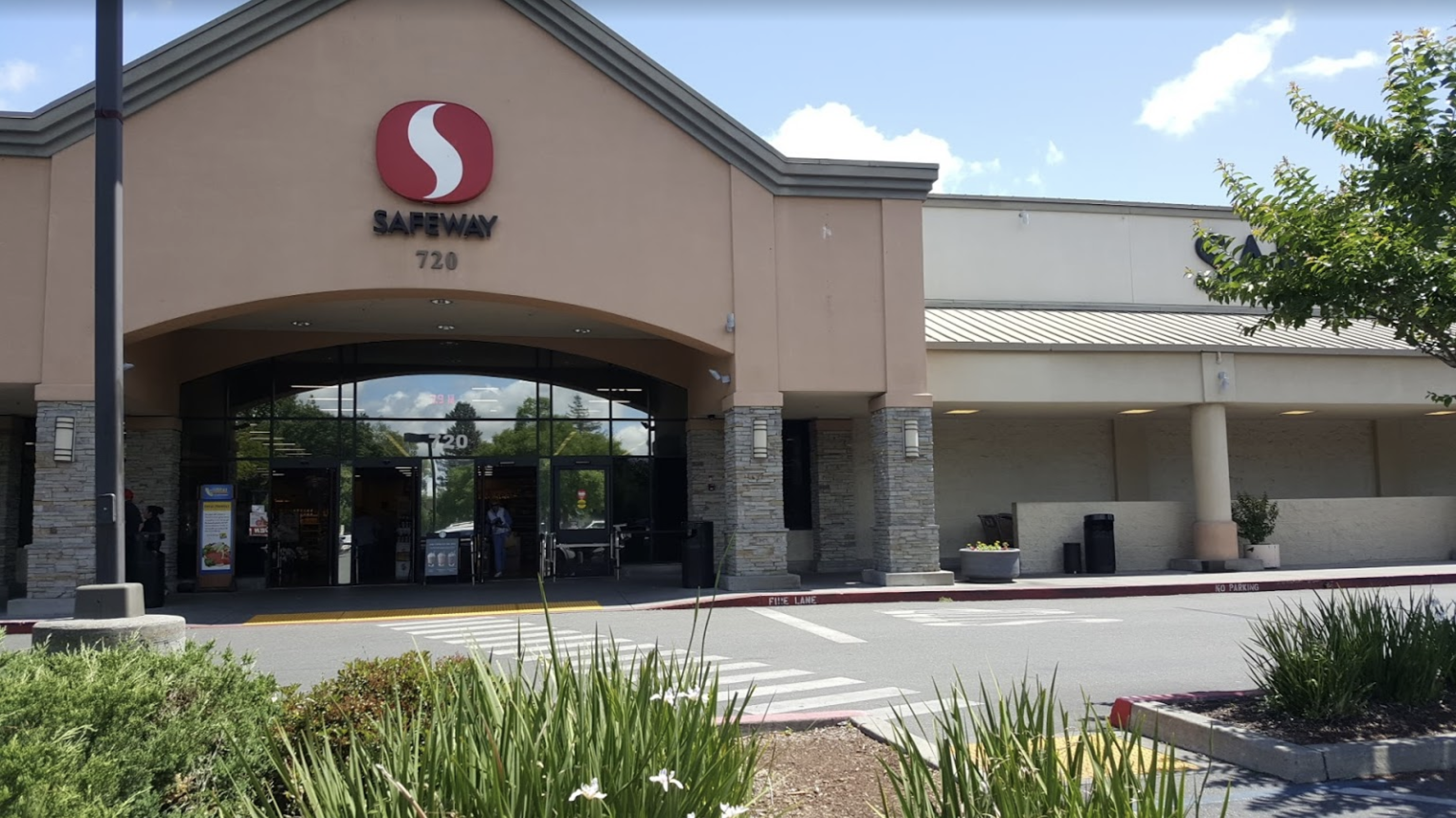 this is a picture of the outside of a Safeway.